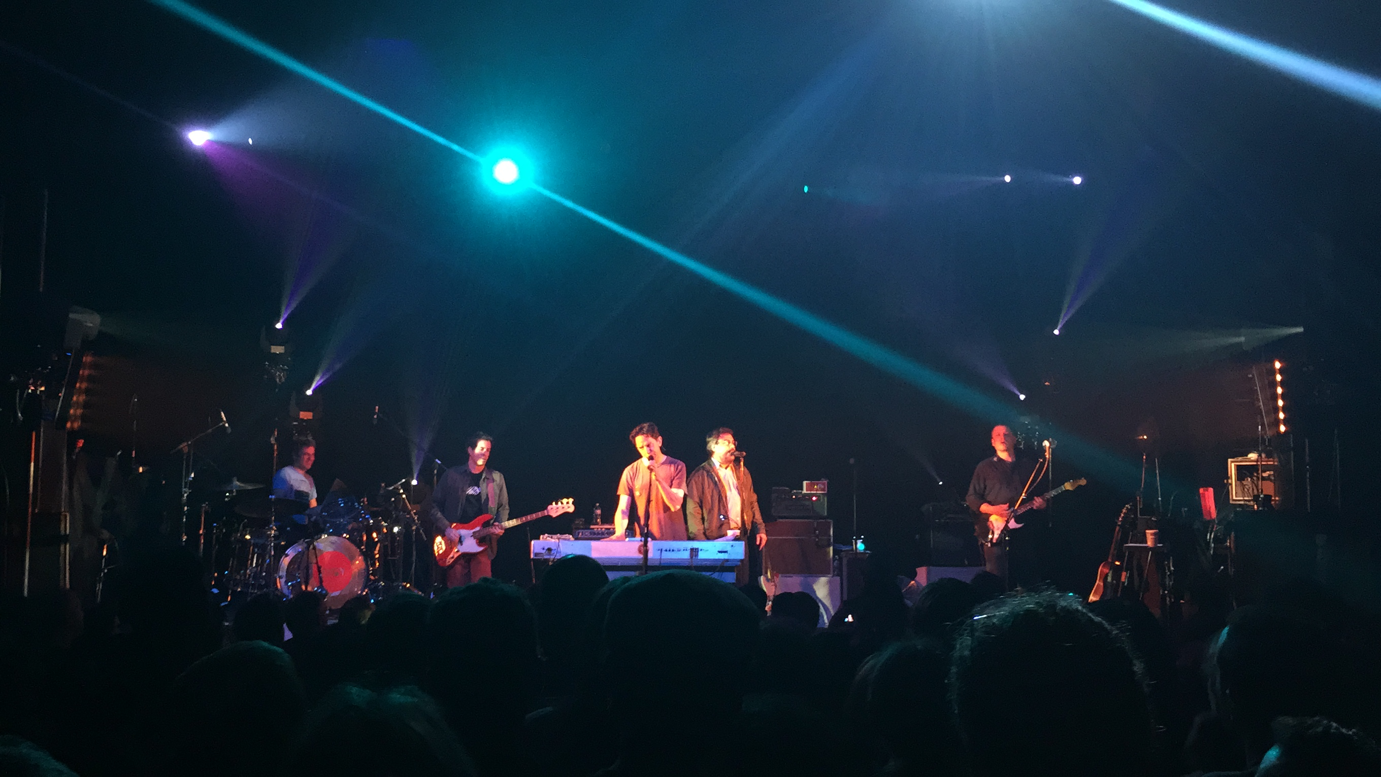 They Might Be Giants in Chicago's Vic Theater on 2015-04-17